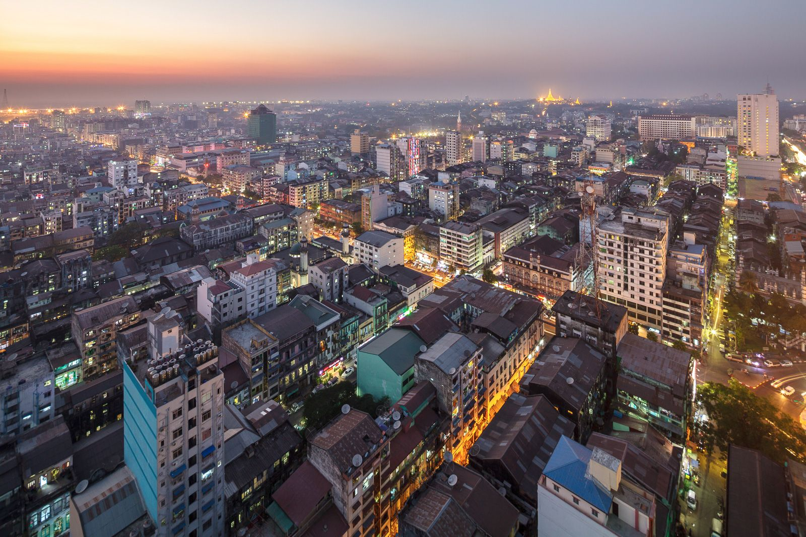 Downtown Yangon at Night